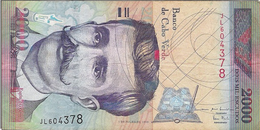 2000 CVE 2007 reverse